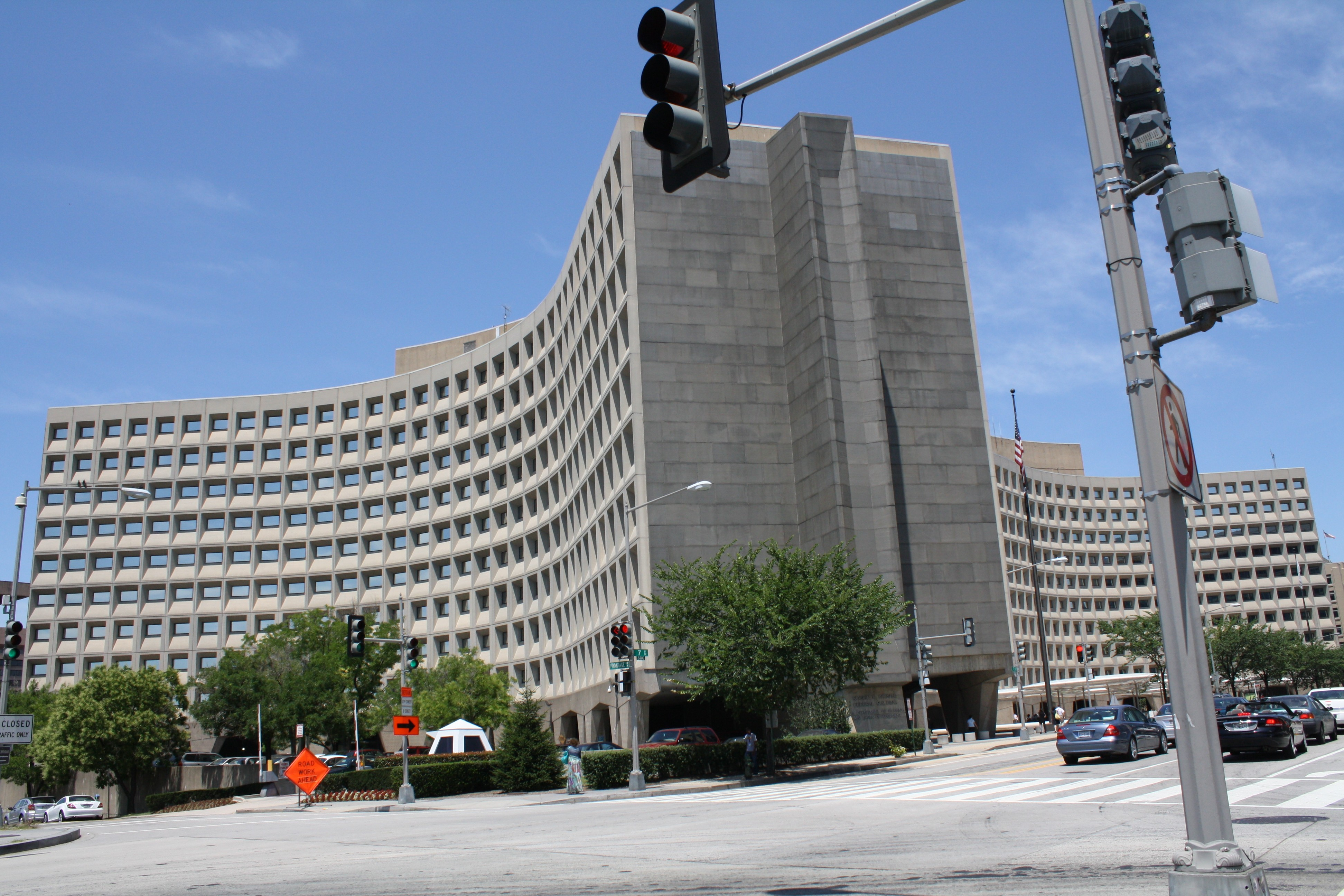 The Robert C. Weaver Federal Building, located at 451 Seventh Street, SW, Washington, DC, is a ten story federal office building designed by architect Marcel Breuer, a master of the modern architectural movement in the United States. The building was constructed for the Department of Housing and Urban Development. The design team for the building included Herbert Beckhard and Nolen Swinburne Associates. The builder was John McShain, Inc., under supervision of the General Services Administration. The cornerstone for the building was laid in November 1966. The building was formally opened and dedicated by Secretary Robert C. Weaver on September 9, 1968, and renamed in his honor July 11, 2000. Read the entire article at This photo was taken by Elvert Xavier Barnes on Tuesday, 14 July 2009.